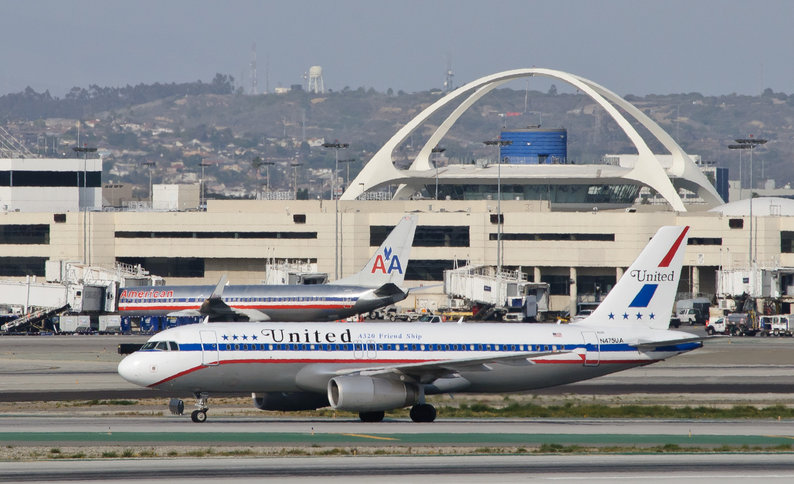 At last I am getting to spot this beauty, even though heat haze, despite the cool temperatures, is becoming an issue. In 2011, to mark the 85th anniversary of United Airlines (1926 - founding of Varney Air Lines), United took this aircraft, and based on employee vote, applied the 1972 "Friend Ship" livery to it. This livery is also commonly known by a nickname, "Stars and Bars." The retrojet is arriving from Washington Dulles, operating United 382. Four United liveries are concurrently present at LAX for the afternoon: in addition to this retrojet, United's final remaining Battleship Gray aircraft had also just arrived, and the standard Disco Ball and Blue Tulip aircraft of course are present in plentiful numbers. N475UA, Airbus A320-200 (ex-Ted)